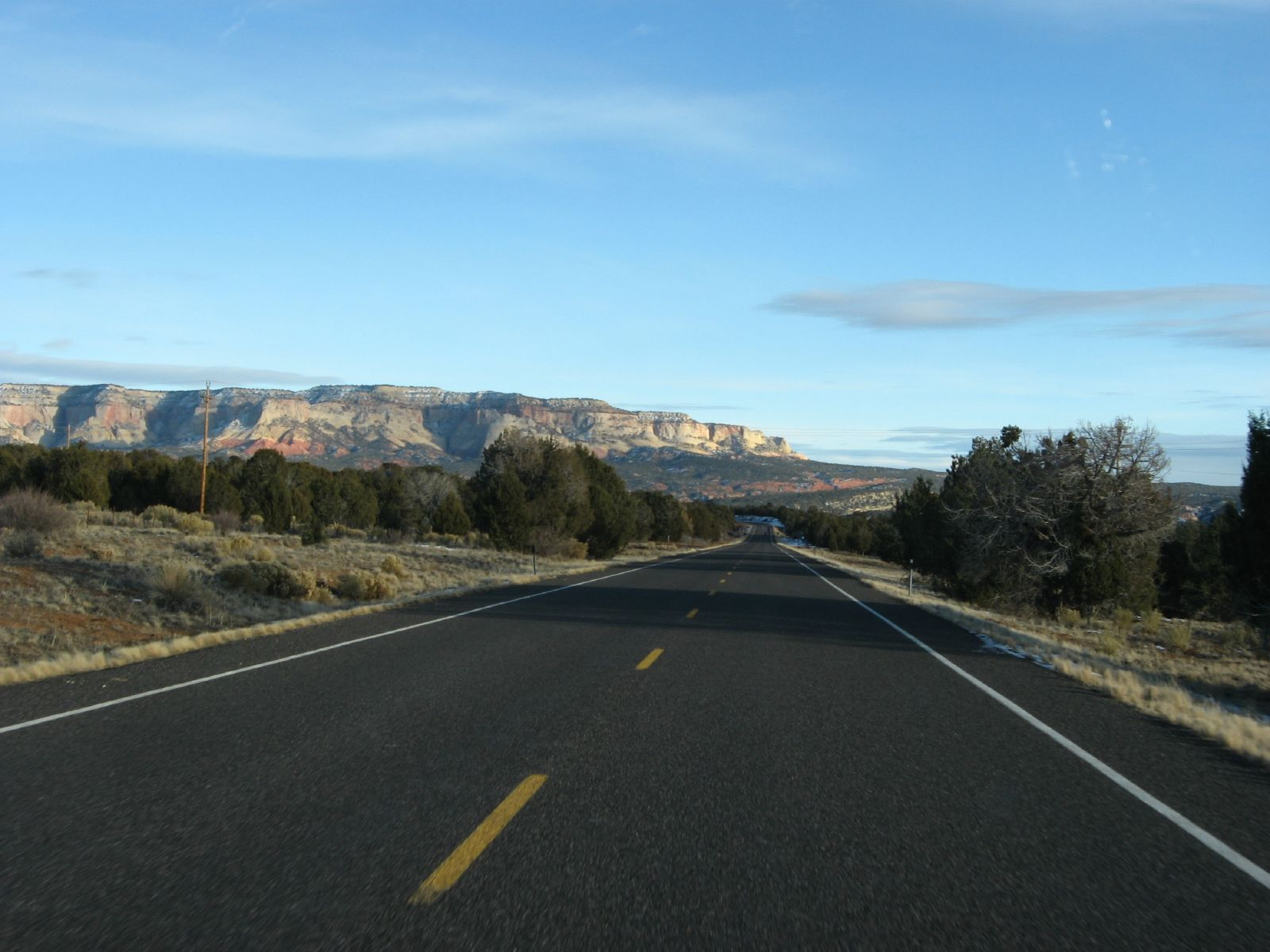 Utah State Route 9, Between Zion National Park and Mount Carmel Junction, Utah